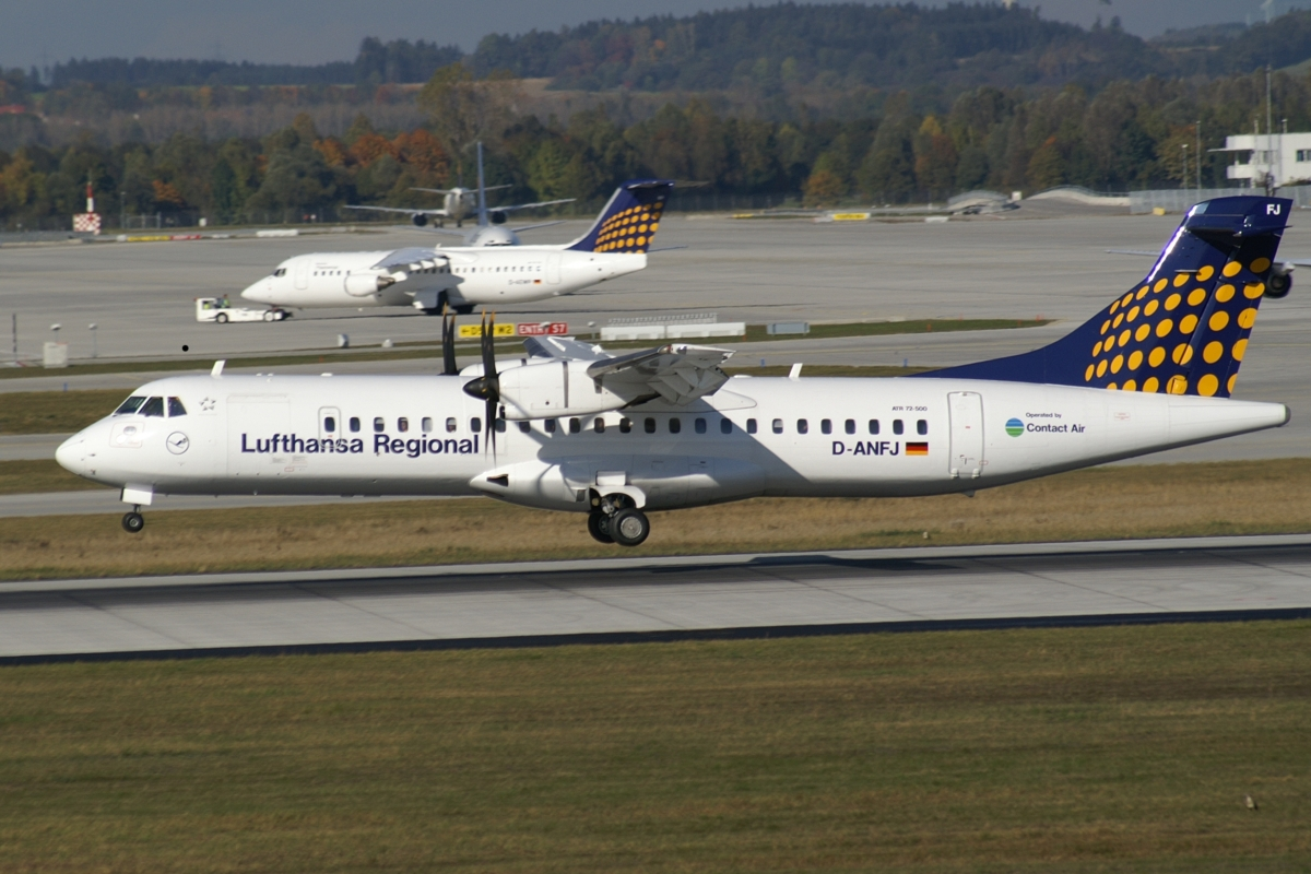 Contact Air ATR 72 D-ANFJ at Munich Airport